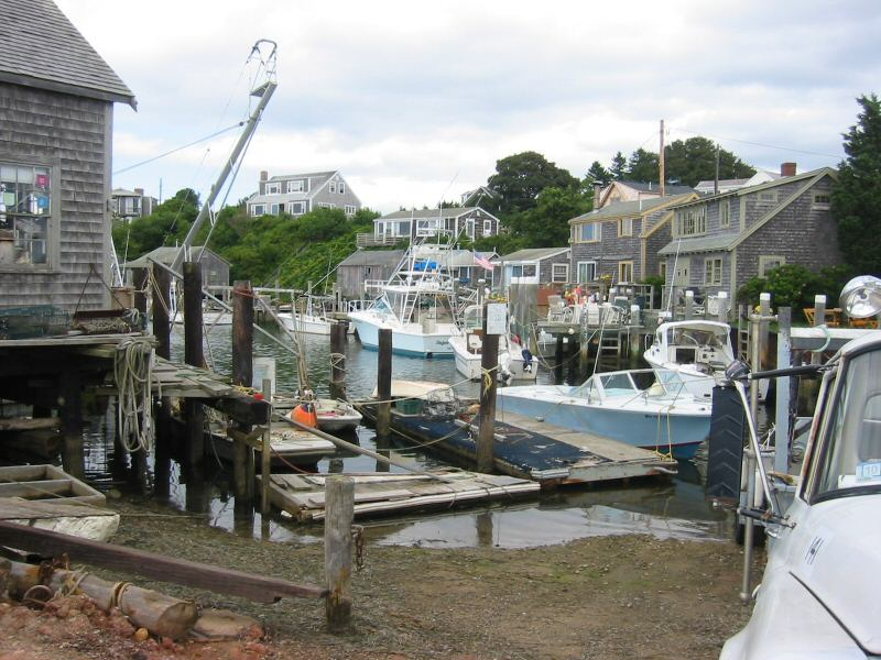 Fishing cottages and the harbor at Menemsha, Massachusetts..